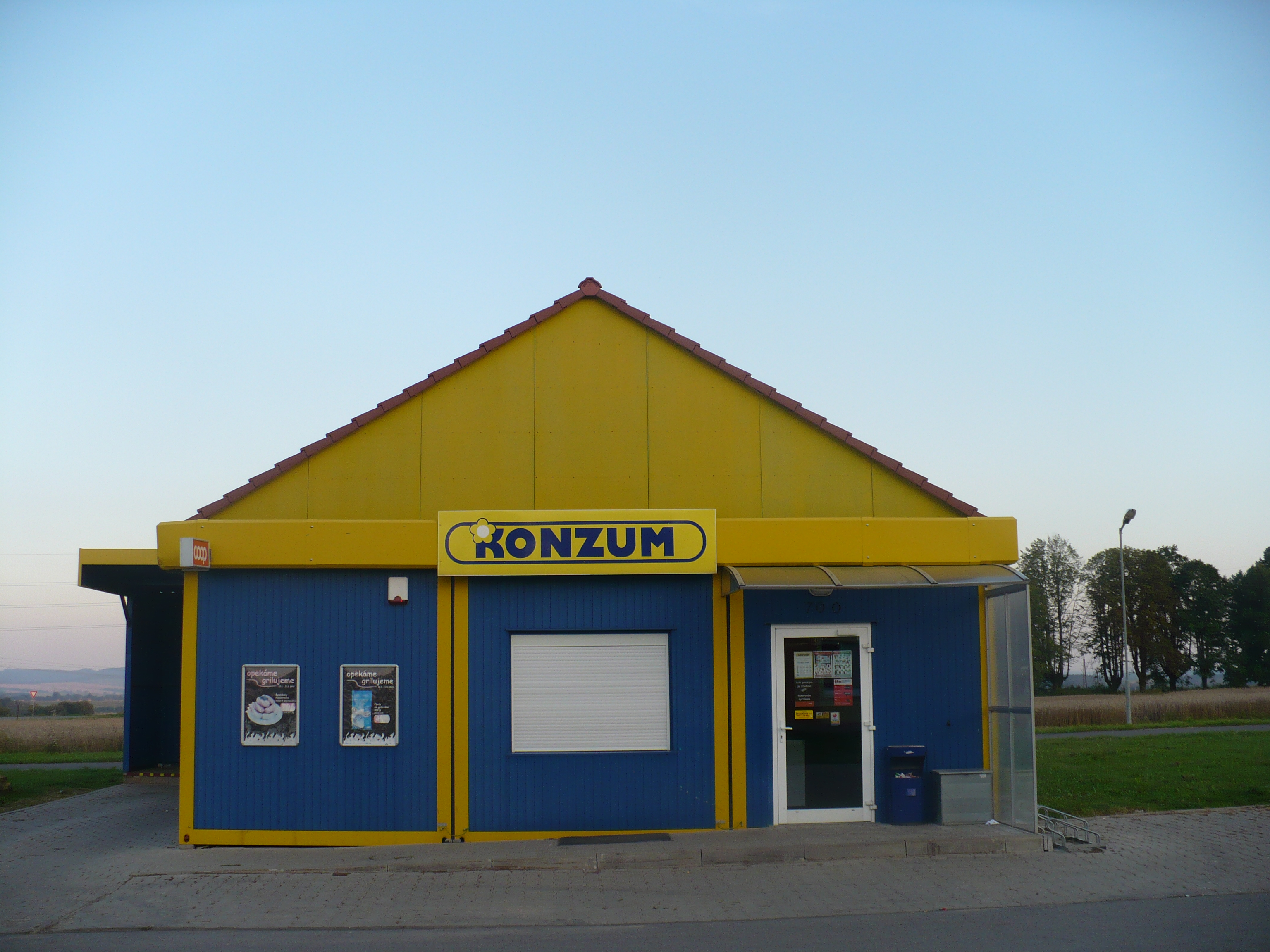 Local store, Rudoltice, Zámeček area